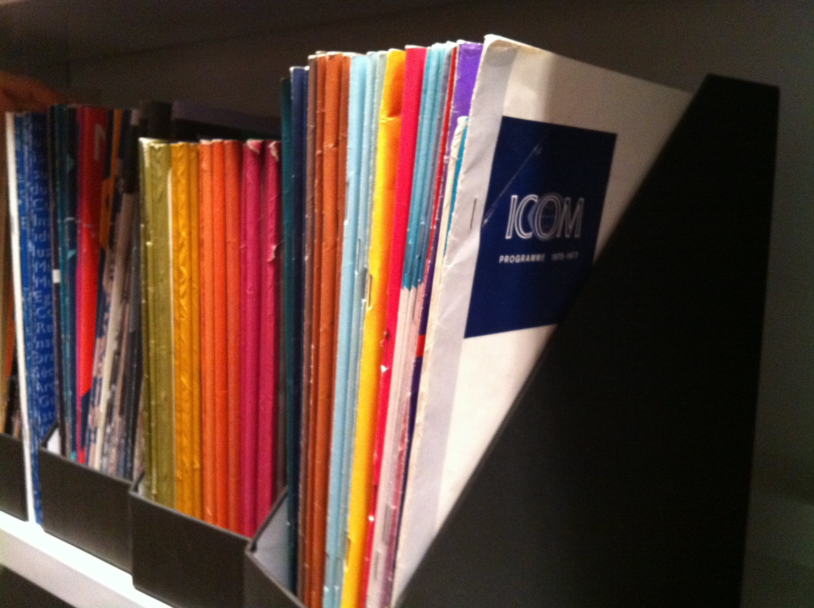 Documentation Center and Textile Museum of Terrassa